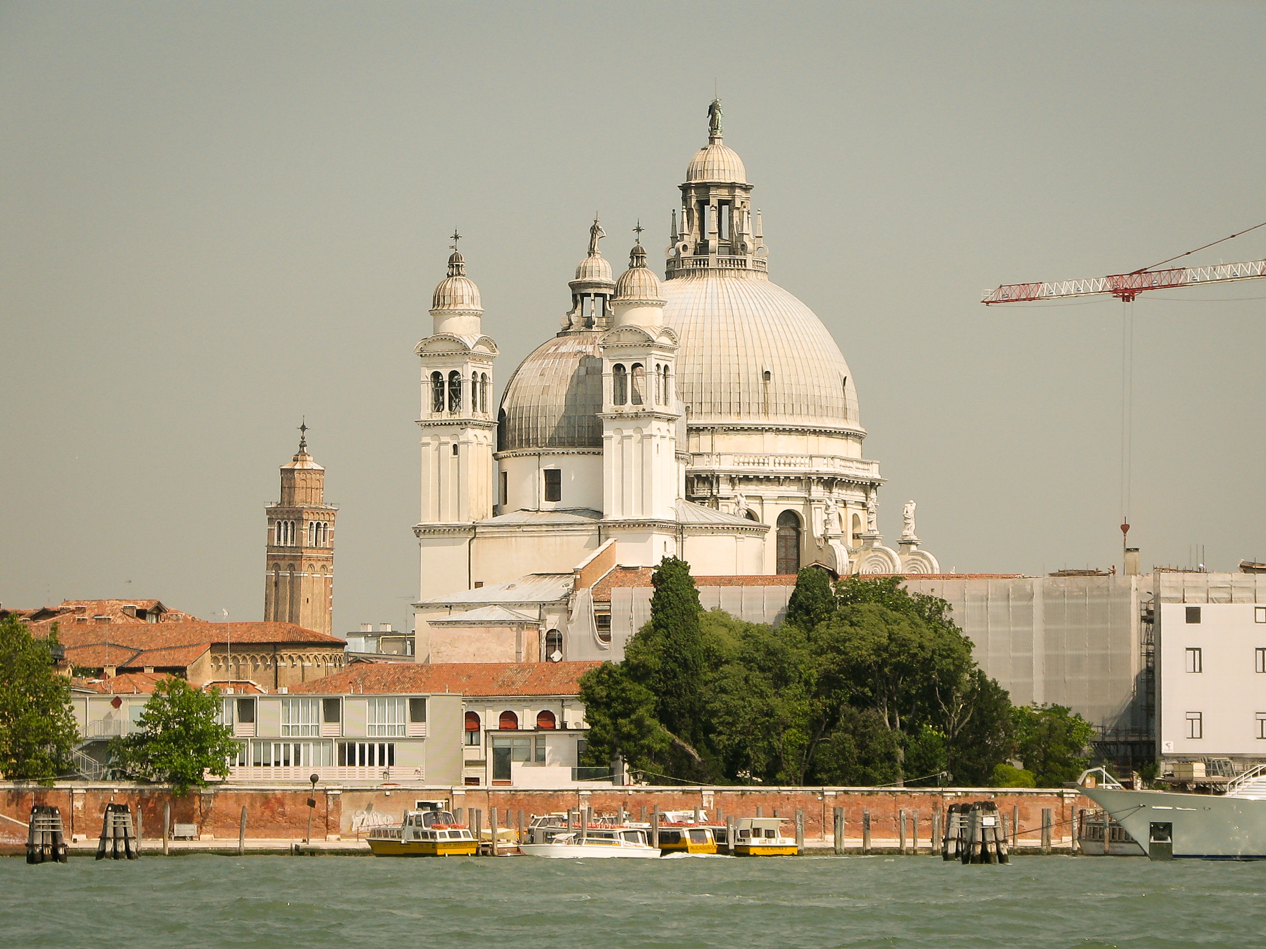 Santa Maria della Salute in Venice